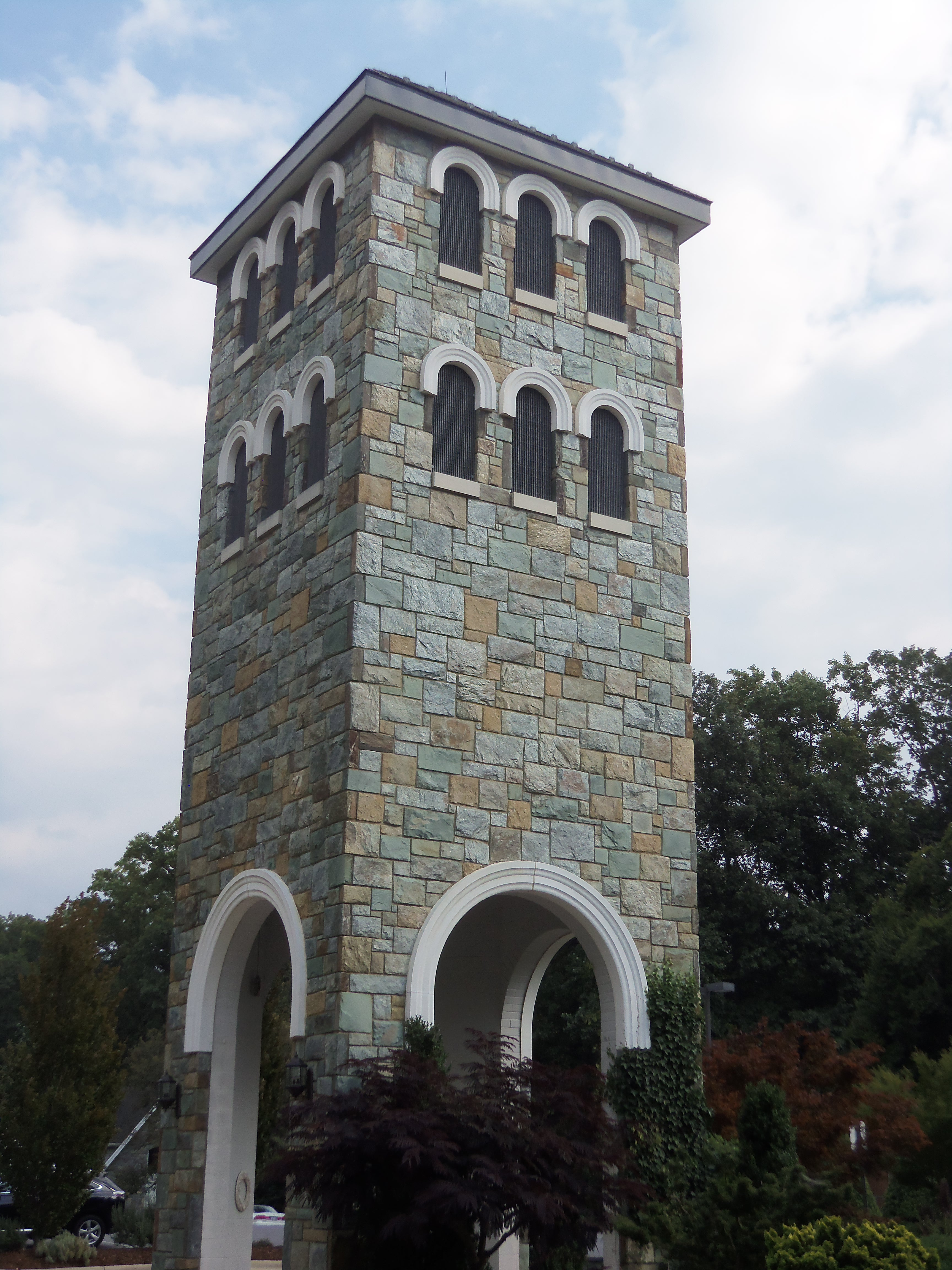 The bell tower at Our Lady of Mercy Catholic Church in Potomac, Maryland.